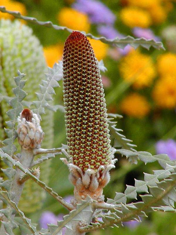 Bud1.jpg License: This image is public domain. You may use this image for any purpose, including commercial.